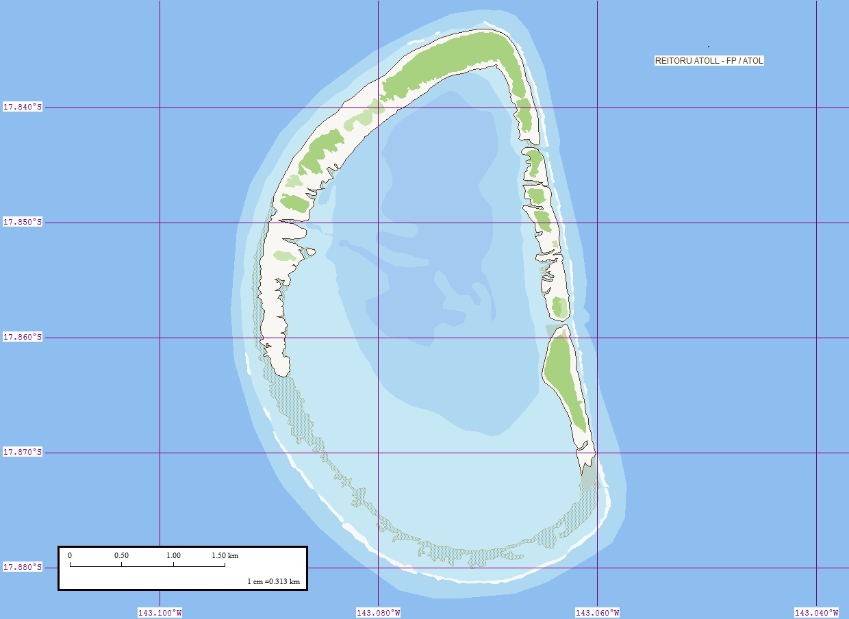 Map of Reitoru Atoll, Tuamotu Archipelago, French Polynesia